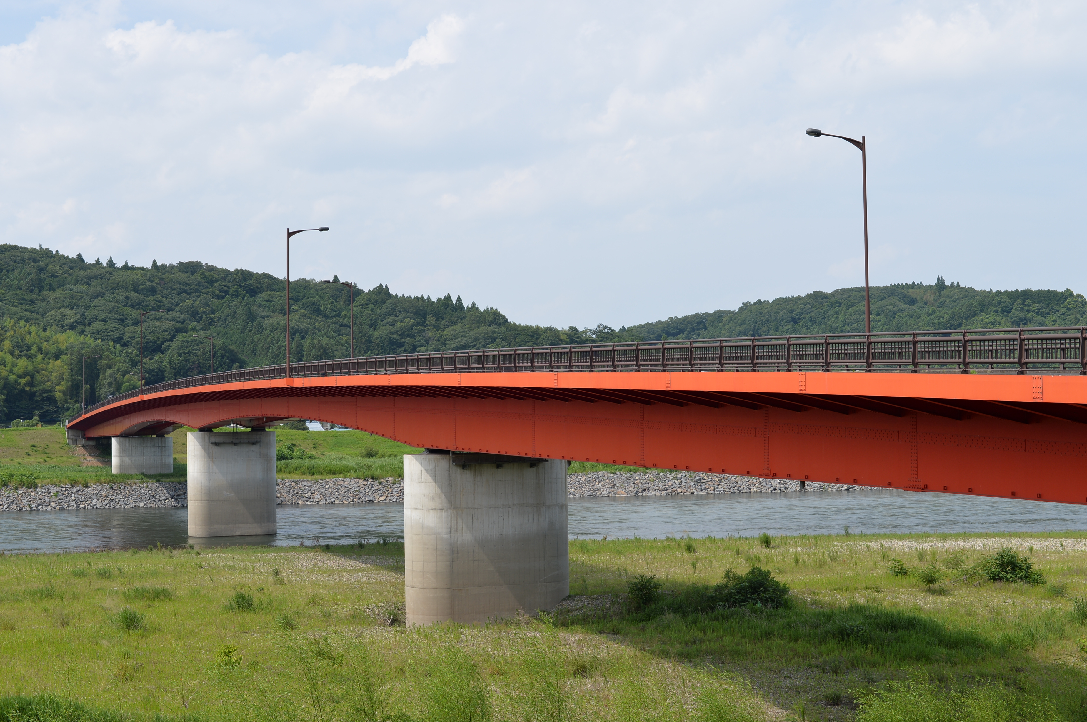 Gozenyama Bridge (Gozen-yama-hashi) on the Ibaraki Prefectural Road Route 39 over the Naka River, seen from Hitachiomiya side